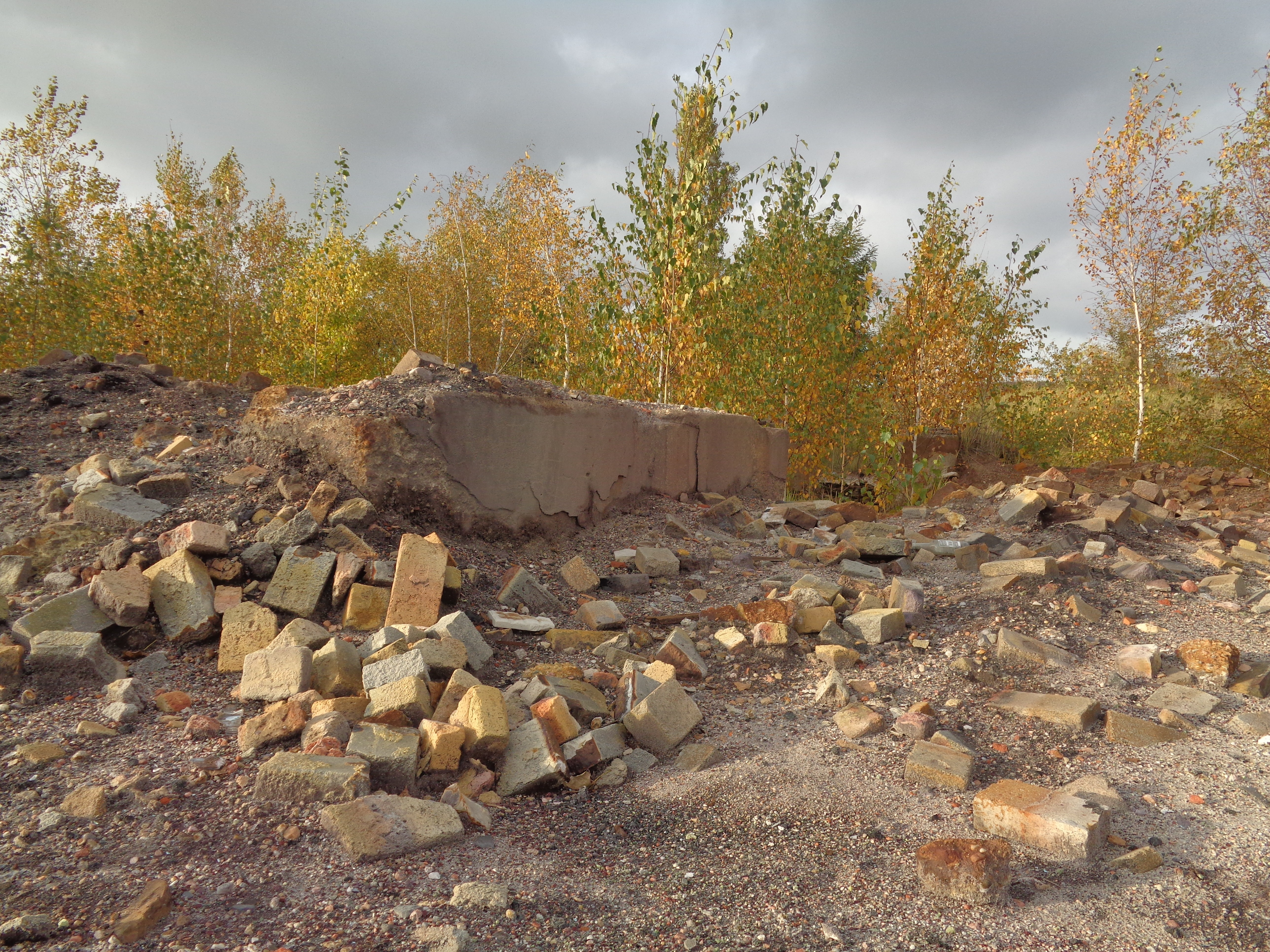 Ruins of former cellulose factory in Włocławek.